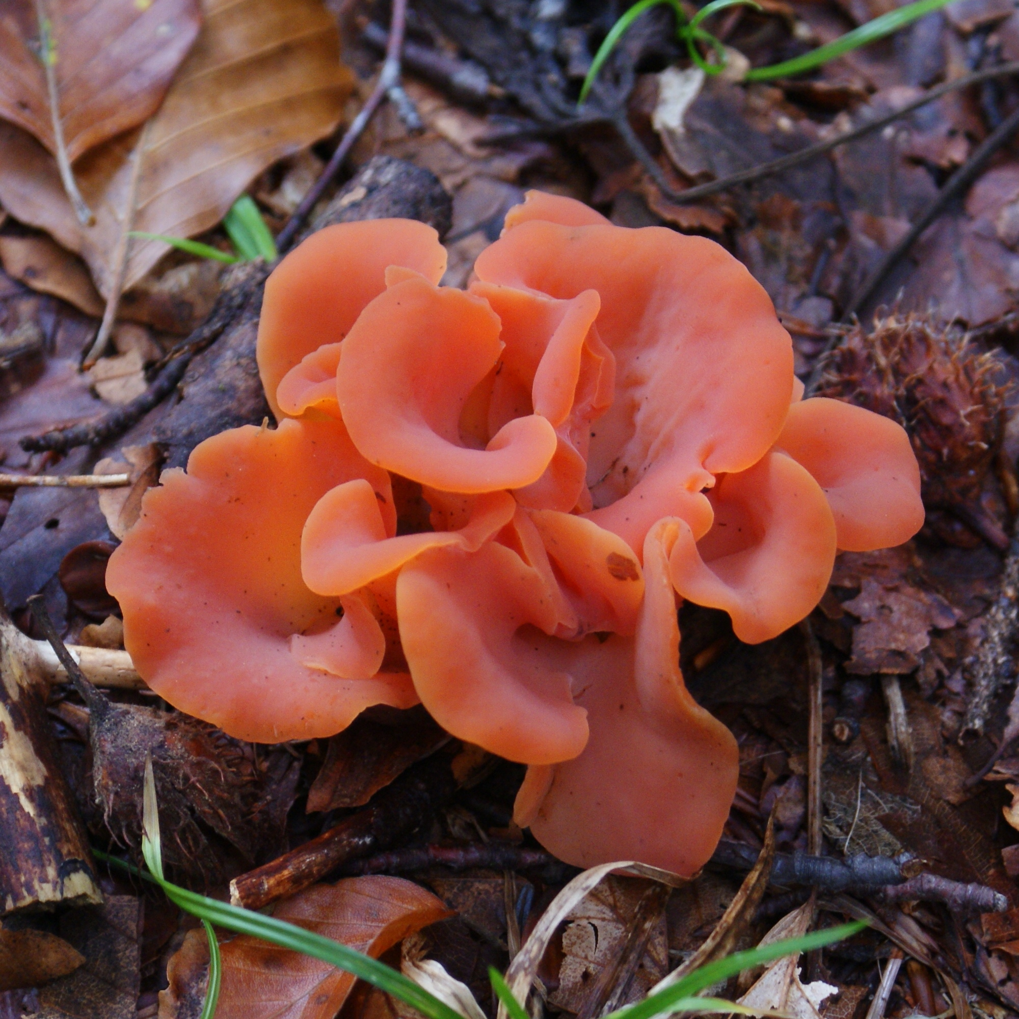 Guepinia helvelloides - Vercors - France